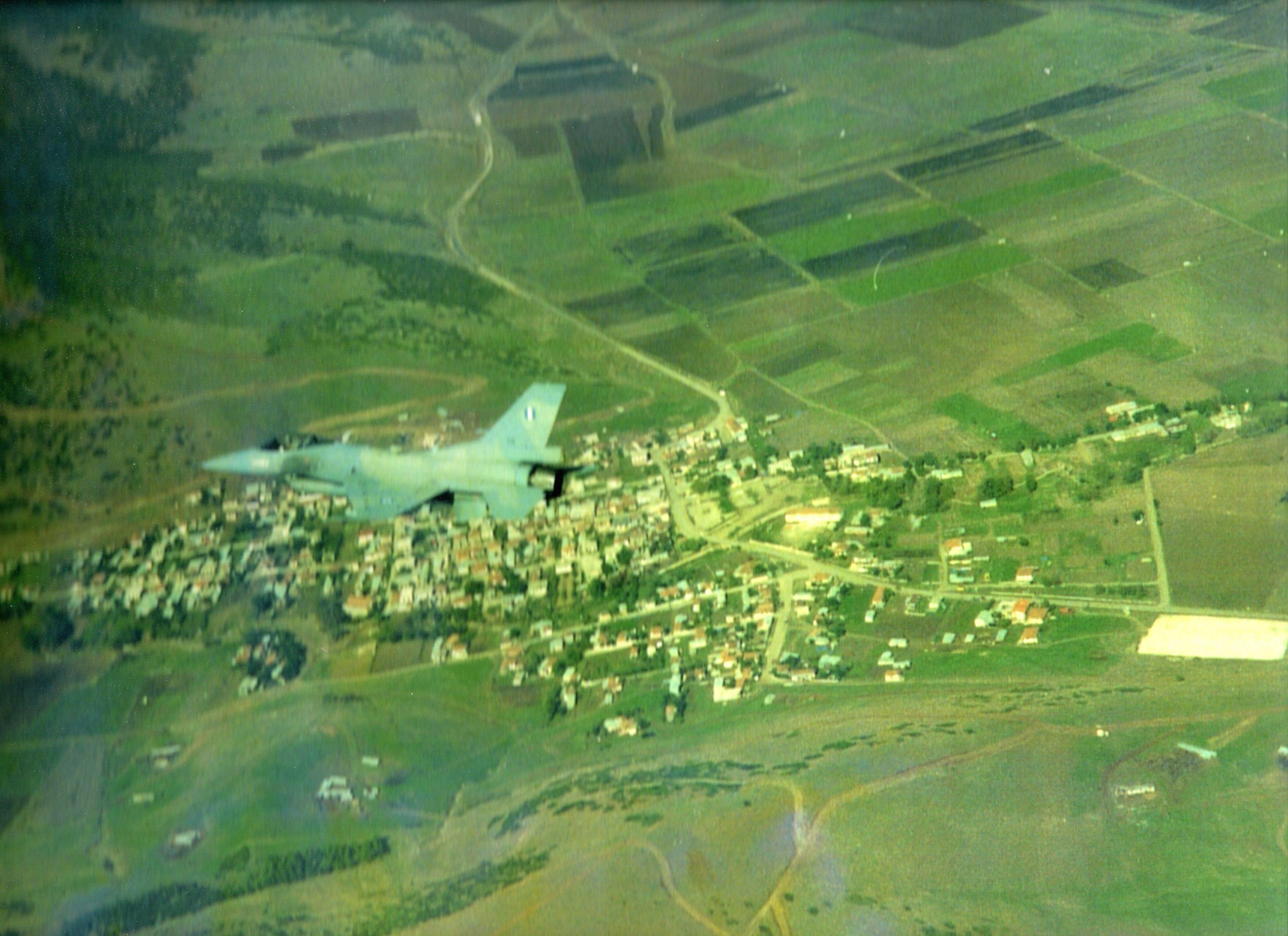 Perivoli